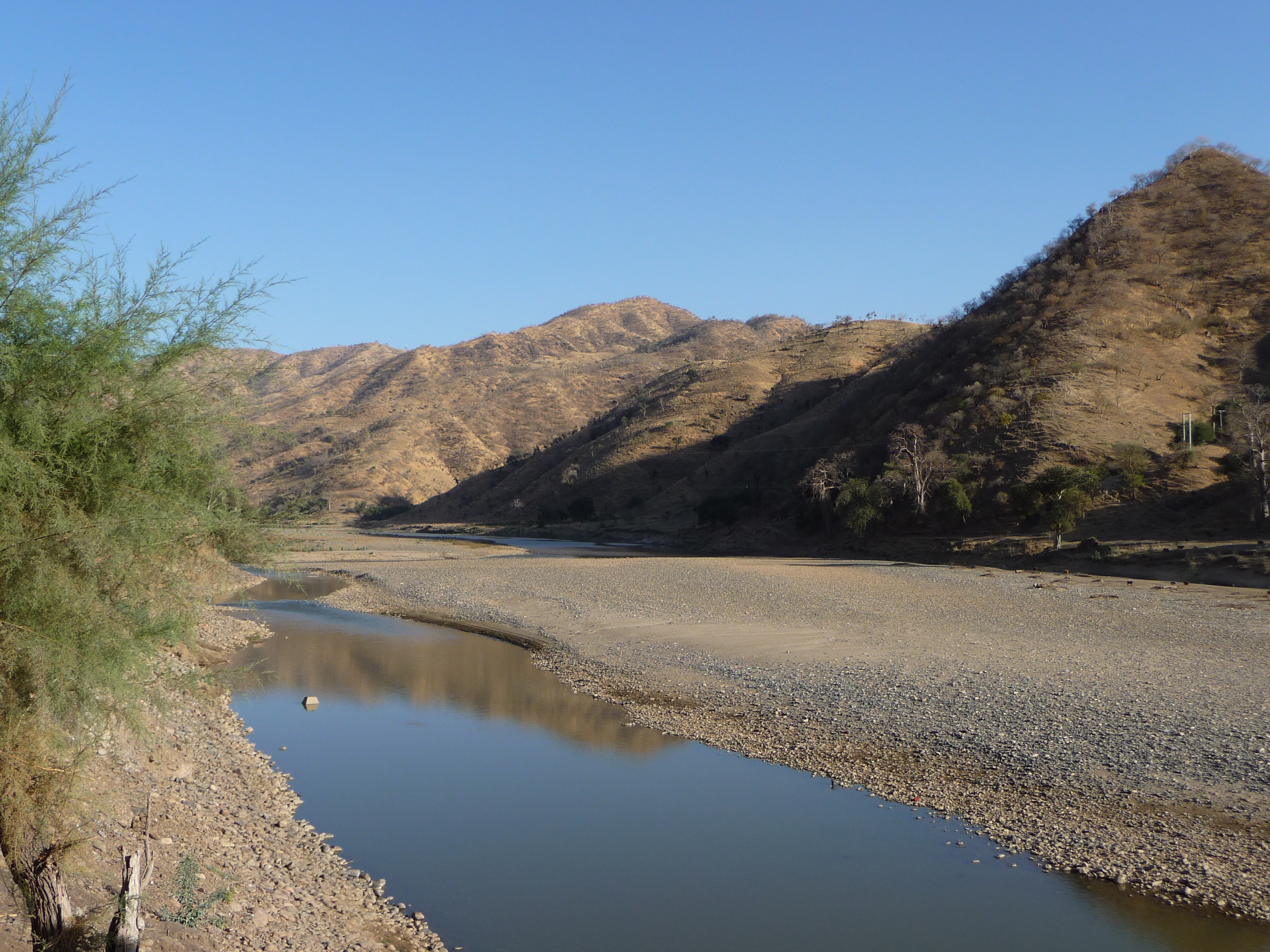 The Tekezé River (Tigray Region, Ethiopia).